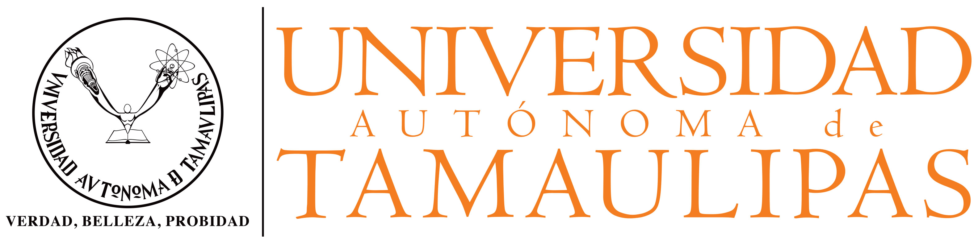 University Autonomus of Tamaulipas´s updated logo